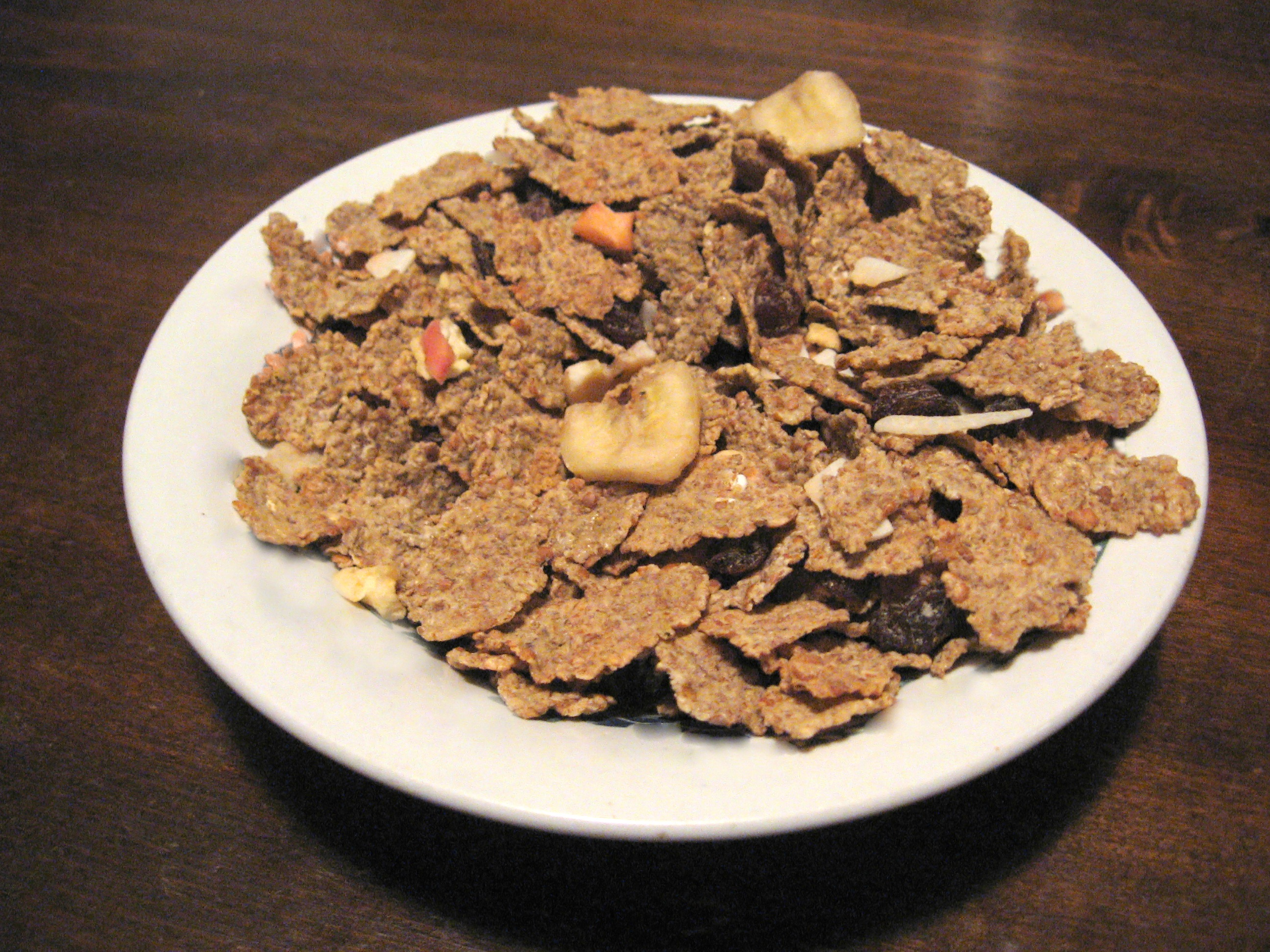 Photograph of a bowl of Tesco's own-brand Fruit & Fibre (their actual spelling). Described by them as "crunchy wheat flakes with raisins, banana, coconut, apple, hazelnuts and almonds". I suspect that the hazelnuts may be MIA from this photograph, but it's not exactly a work of art anyway.